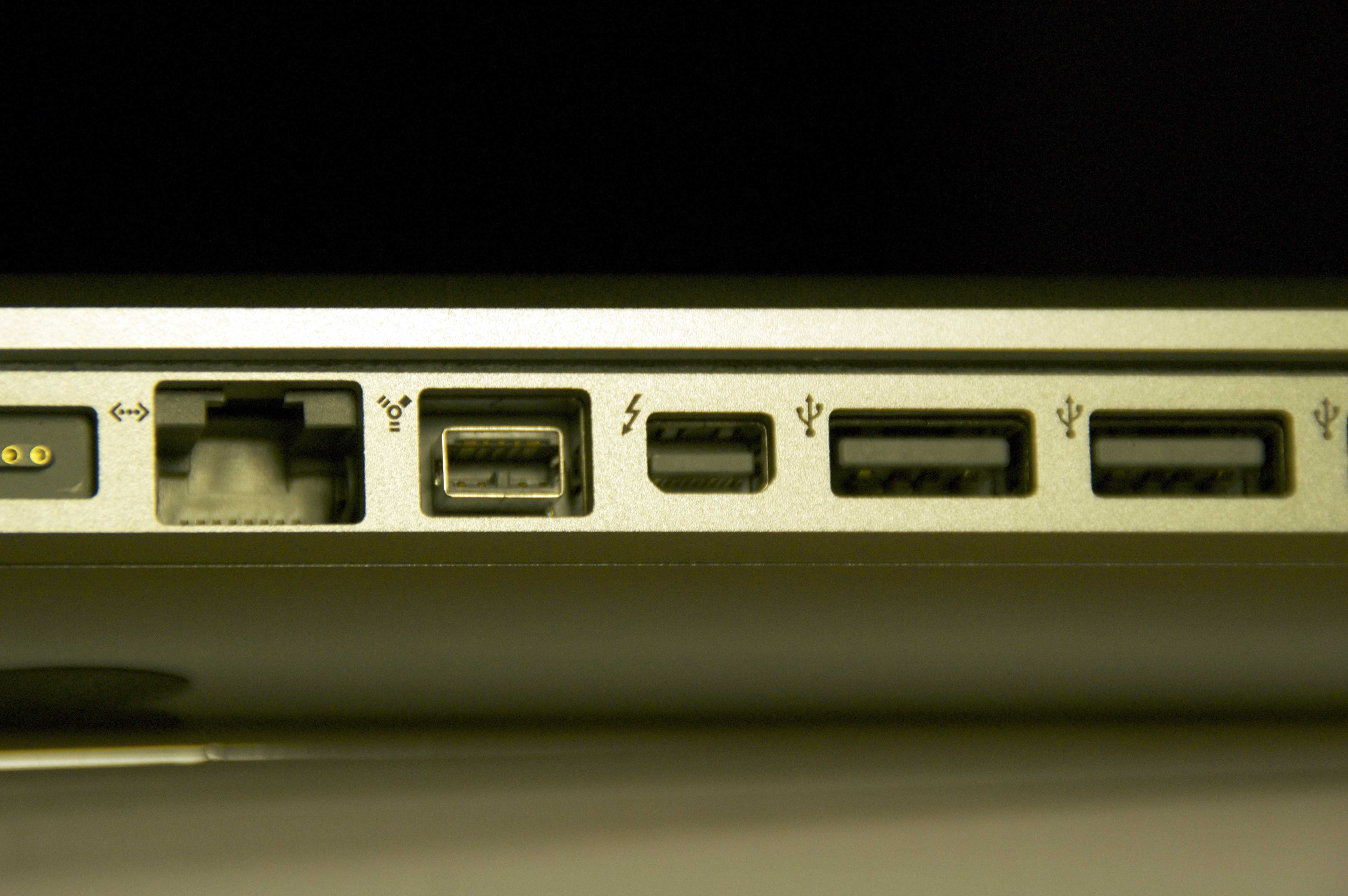 Photo of the Thunderbolt I/O from the 2011 Macbook Pro 17"